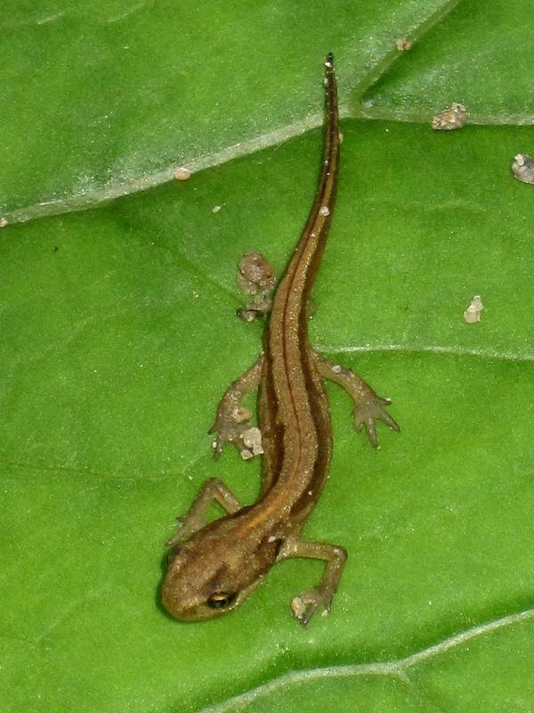 Lissotriton vulgaris (Smooth newt), Arnhem, the Netherlands